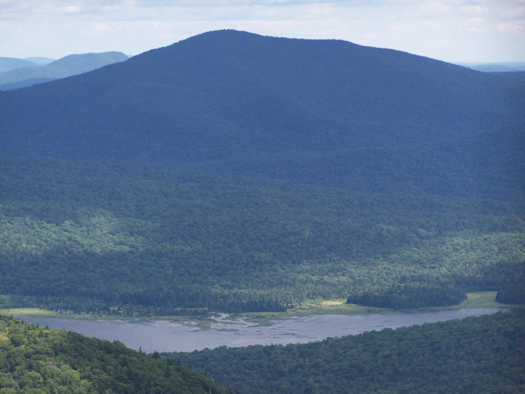 Marshy End of Cedar River Flow from the Wakley Mountain Fire Tower